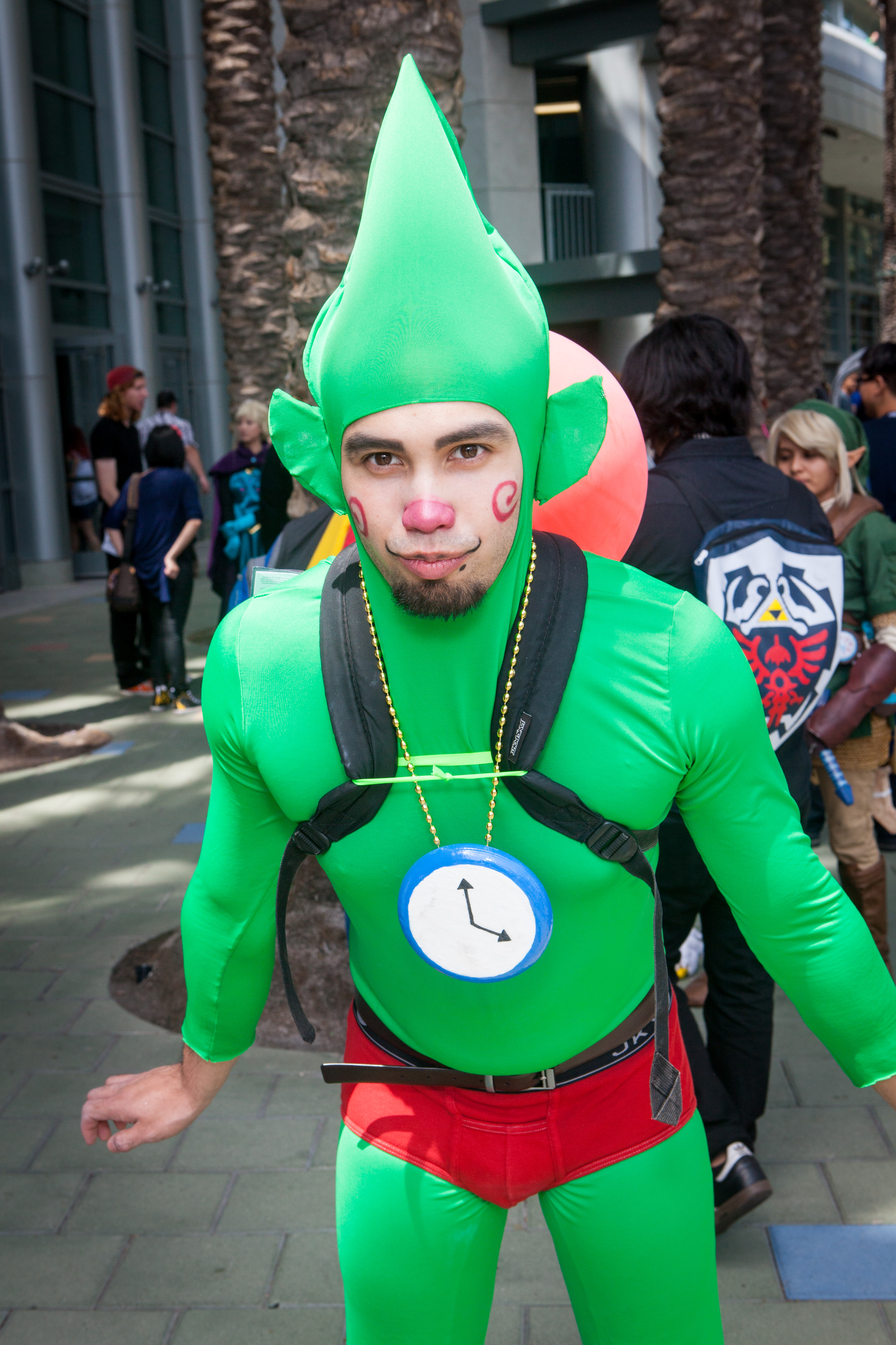 Cosplay of Tingle (from The Legend of Zelda series) at WonderCon 2014.